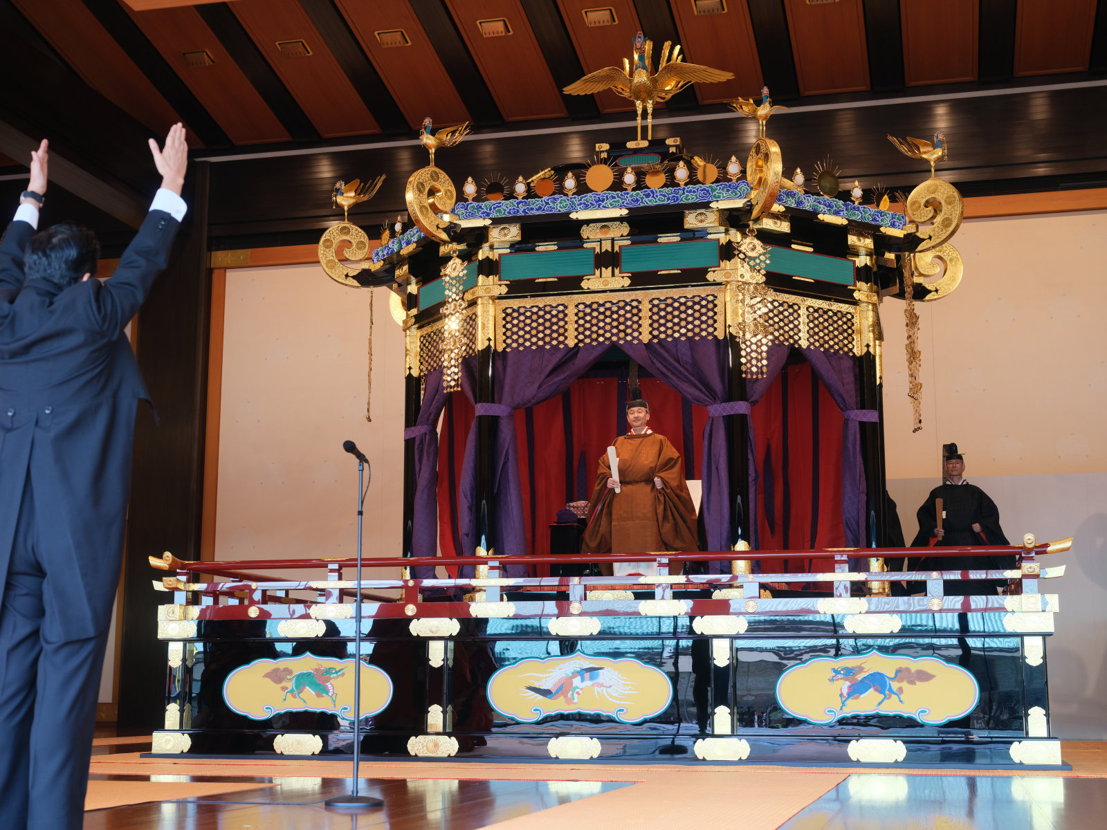 Ceremony of the Enthronement of His Majesty the Emperor at the Seiden